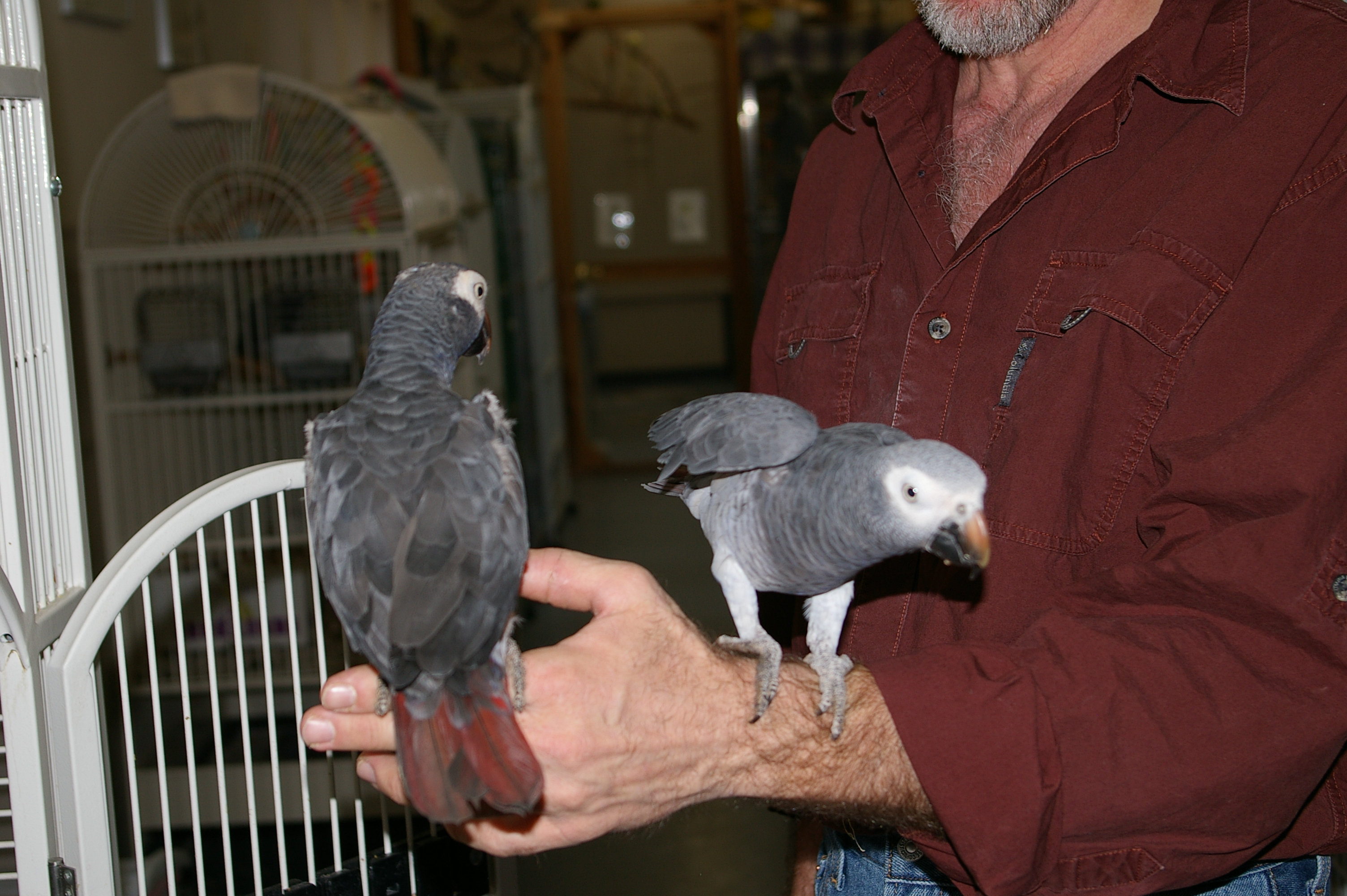 Two pet Timneh African Grey Parrots perching on a man's arm.